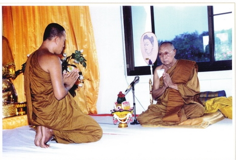 แต่งตั้งเป็นเจ้าอาวาสวัด